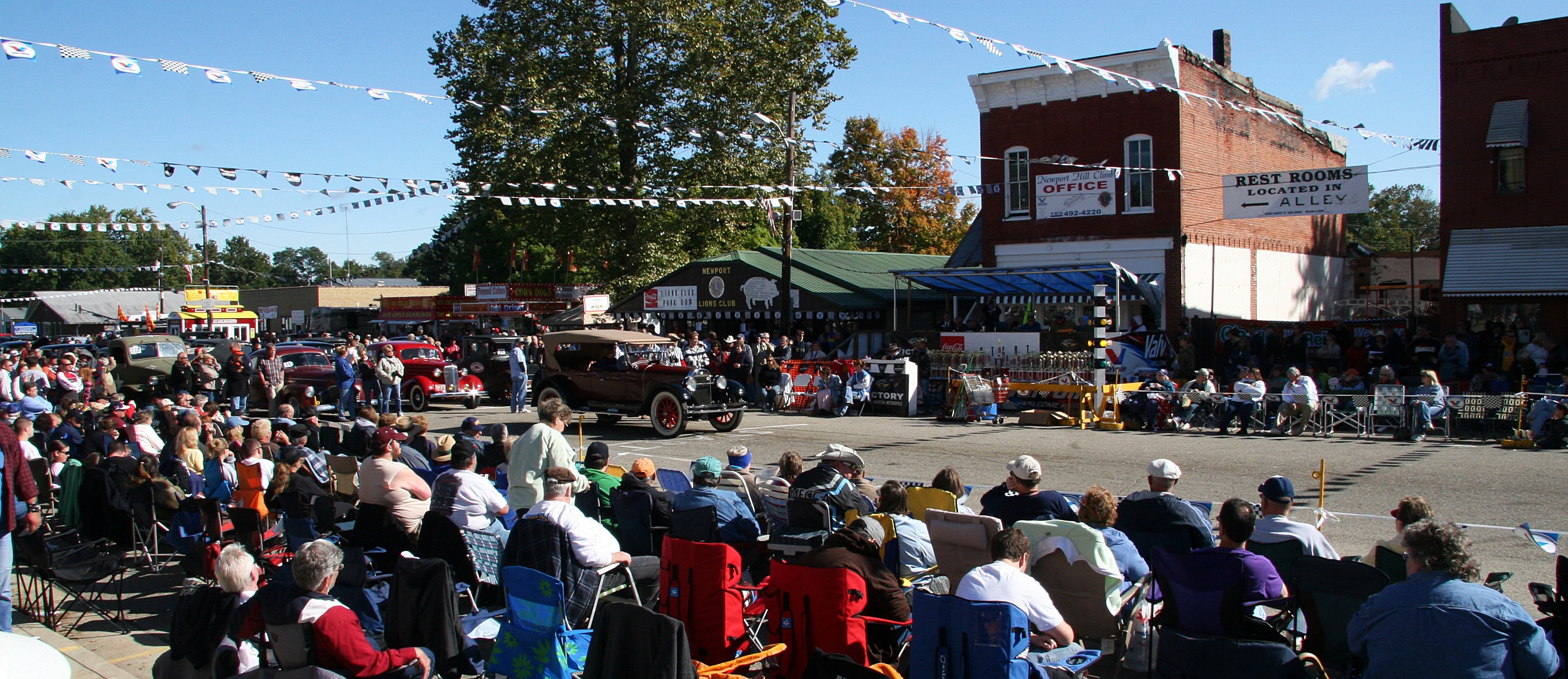 Looking northeast toward the starting line of the 2009 Newport Antique Auto Hill Climb in Newport, Indiana.